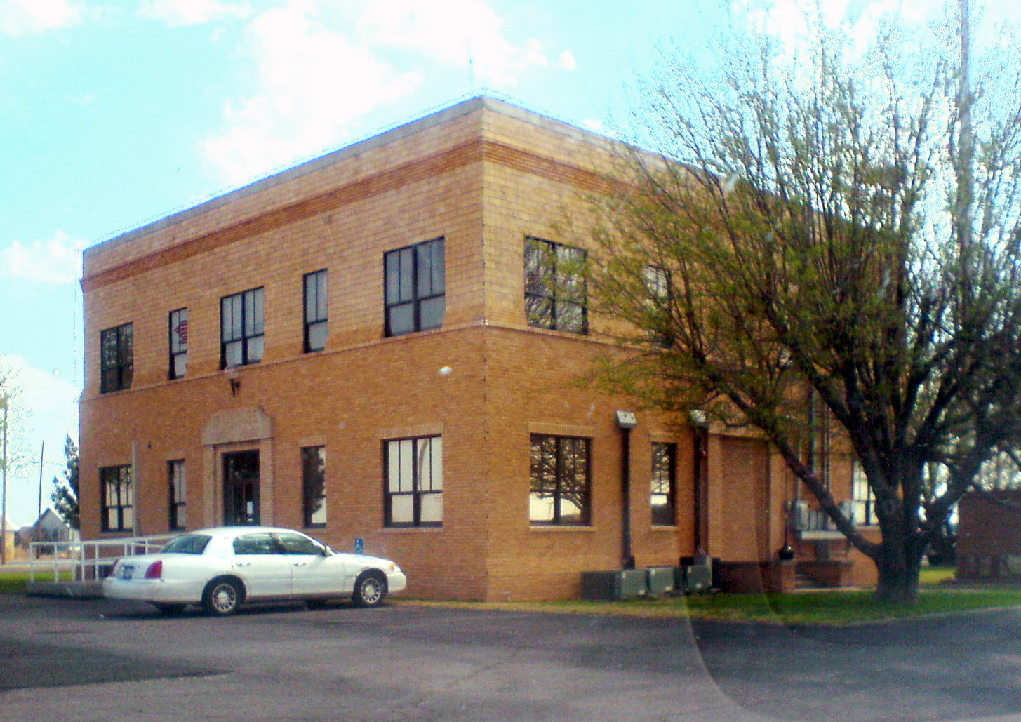 The 1935 Loving County Courthouse in Mentone, Texas, United States.